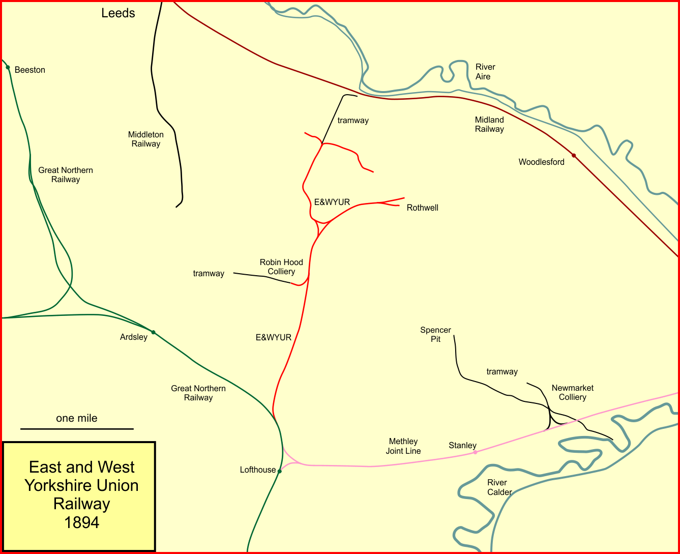 System map of the East and West Yorkshire Union Railway in Leeds, West Yorkshire, England, in 1894